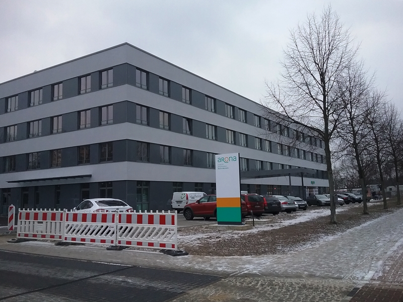 Arona Clinic for geriatric medicine to open on January 25, 2019.